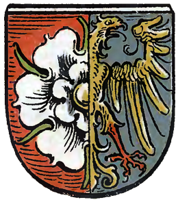 Coat of Arms of Guttentag (today Dobrodzień).